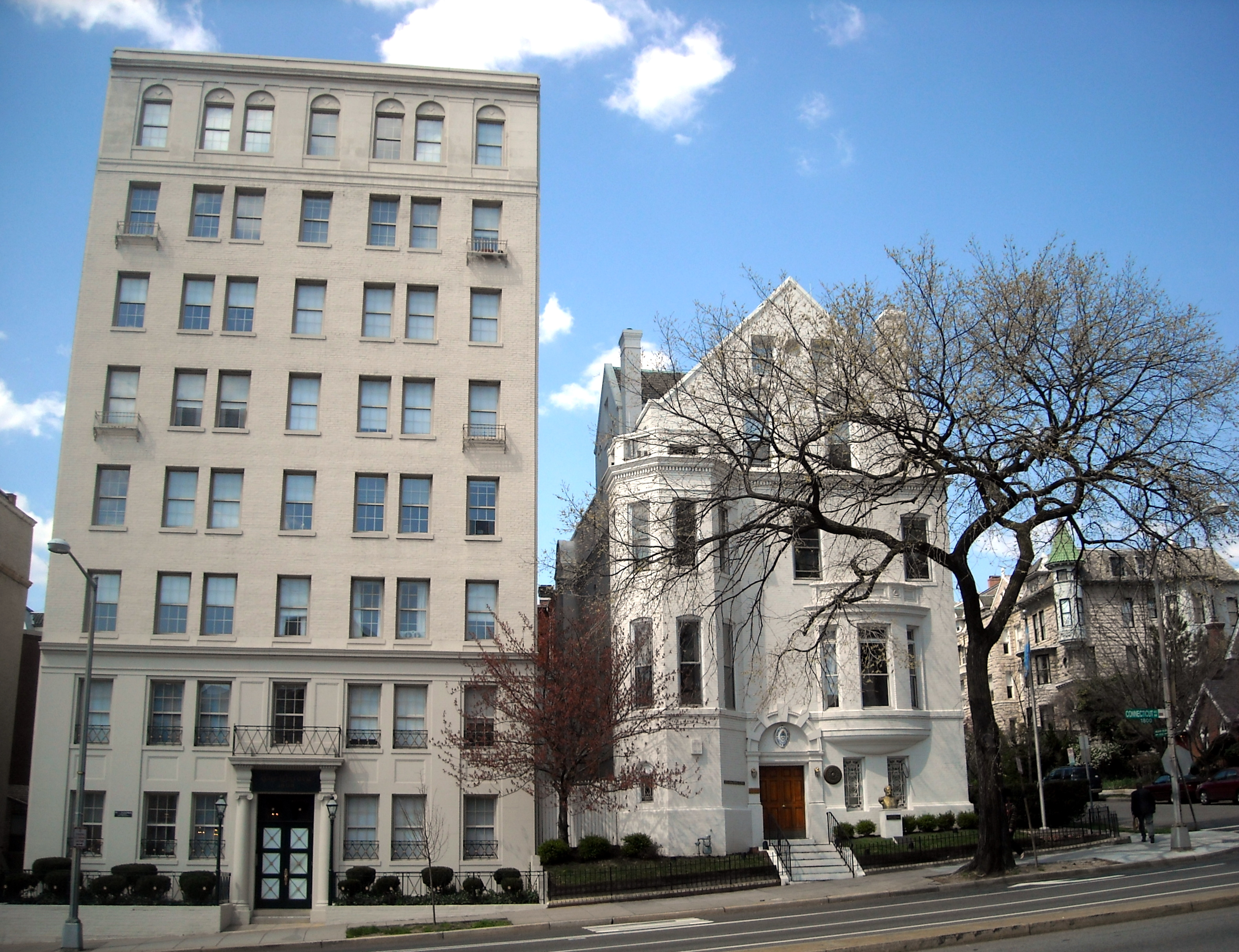 The Oxford House, an apartment building with the offices of the Embassy of Argentina, Military Attaché Office, located at 1808 and 1810 Connecticut Avenue, N.W., in the Sheridan-Kalorama neighborhood of Washington, D.C. The buildings are designated as contributing property to the Sheridan-Kalorama Historic District, listed on the National Register of Historic Places in Washington, D.C. in 1989. 1808 Connecticut Avenue, N.W. – Oxford House Built in 1924, the brick, eight-story, Classical Revival-style apartment building was known as the Oxford House Kalorama (a halfway house) during the 1980s–1990s. 1810 Connecticut Avenue, N.W. – Embassy of Argentina, Military Attaché Office The residence now houses the military attaché of the Argentine embassy. Built in 1904, the brick, five-story, Romanesque Revival-style building was designed by architects Clarke Waggaman and George Ray. Previous occupants include F. M. Matheson, U.S. Secretary of War Jacob M. Dickinson, U.S. Secretary of the Interior Walter Lowrie Fisher, the Guatemalan legation, Sigma Phi Epsilon (D.C. Alpha), and U.S. Representative William Henry Harrison.